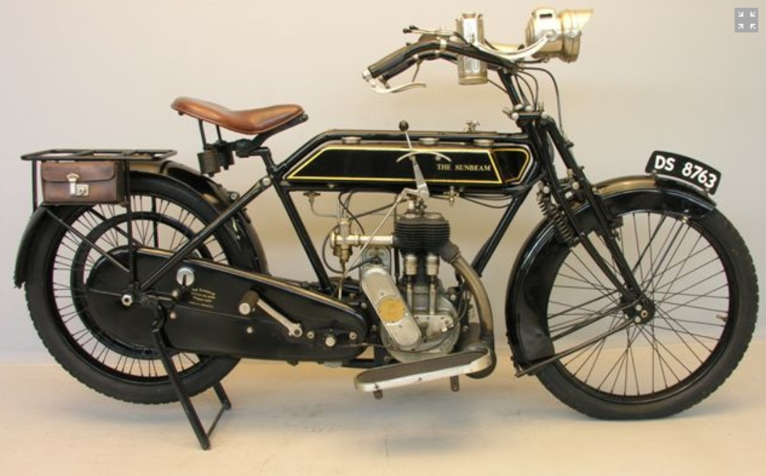 Sunbeam 3½ HP Motorcycle from 1917